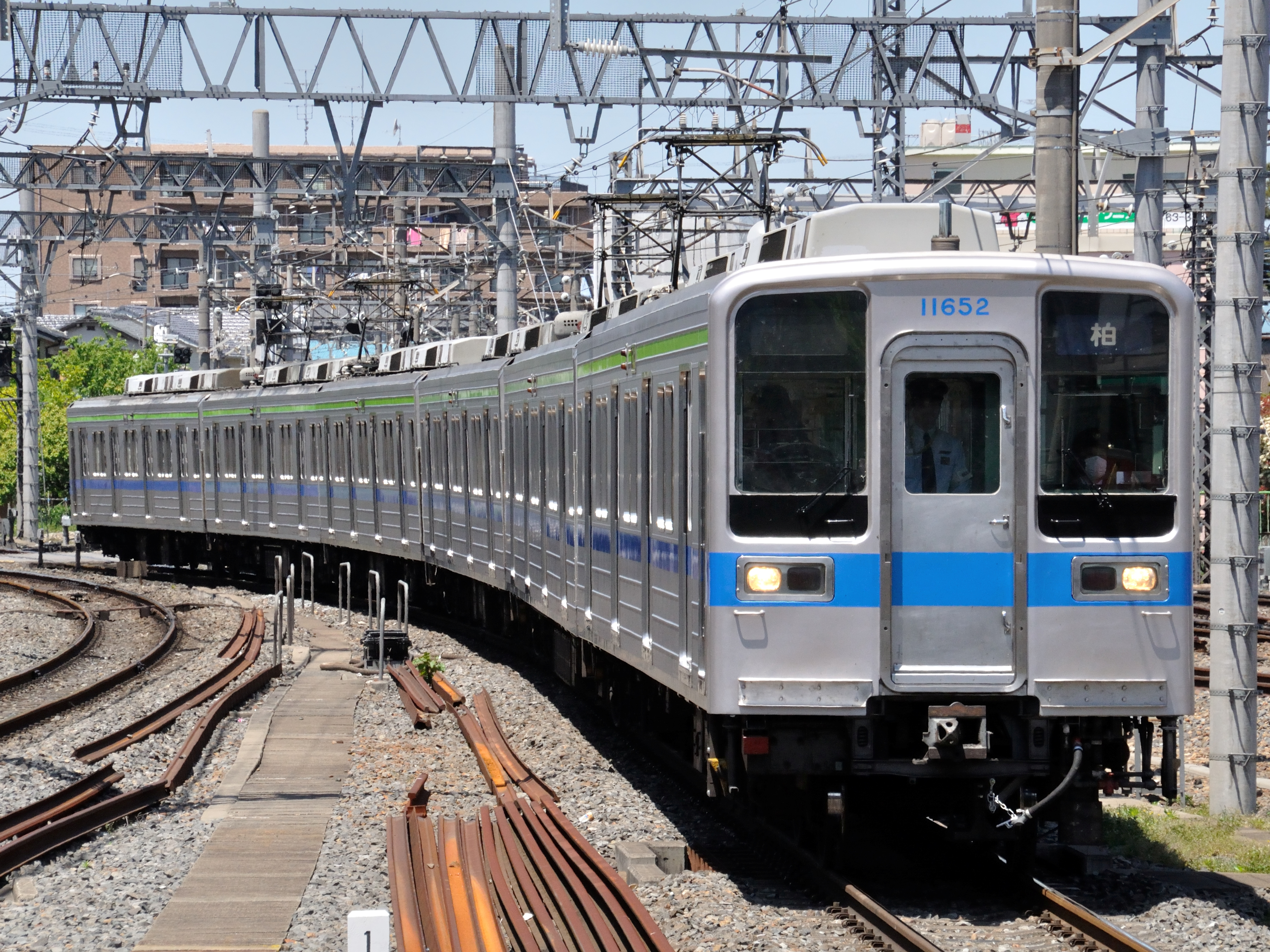 Tobu 10050 series 6-car EMU set 11652 at Kasukabe Station on the Tobu Noda Line